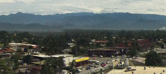 Panoramic photo of Lae city taken from top of the Telikom building, Lae. Taken 29 January 2014